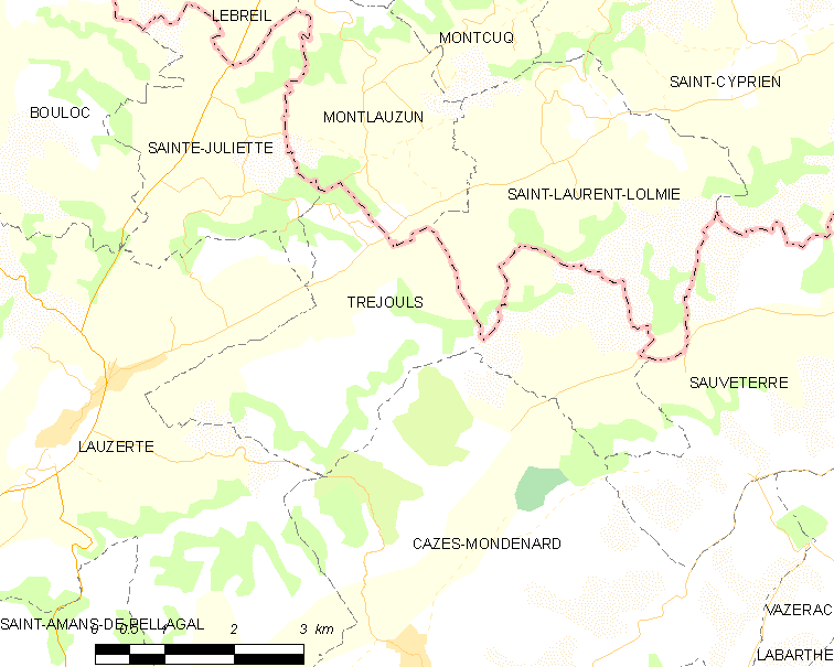 Map of French municipality Tréjouls